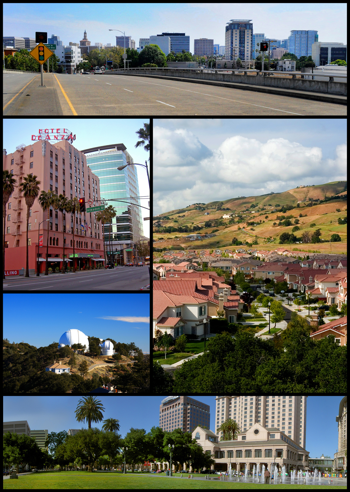 Montage of San Jose, California pictures.